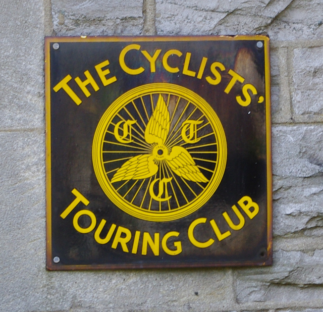 Old Cyclists' Touring Club emblem on a guest house in Ingleton, North Yorkshire